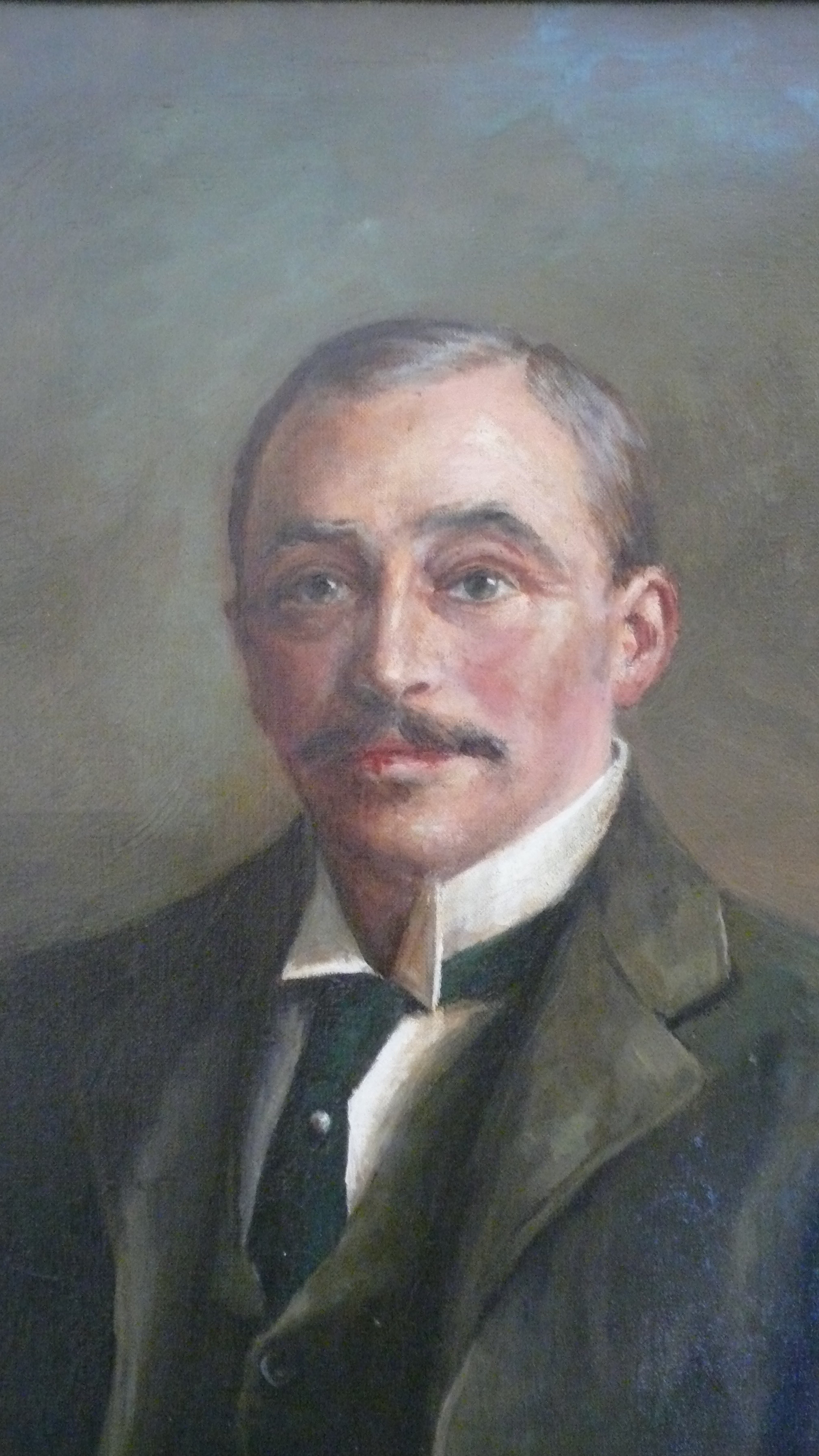 Baron van Til (1871-1944), drawn in 1909